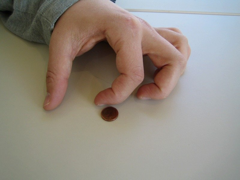 Playing Pinning you have to flip the coins through goals.